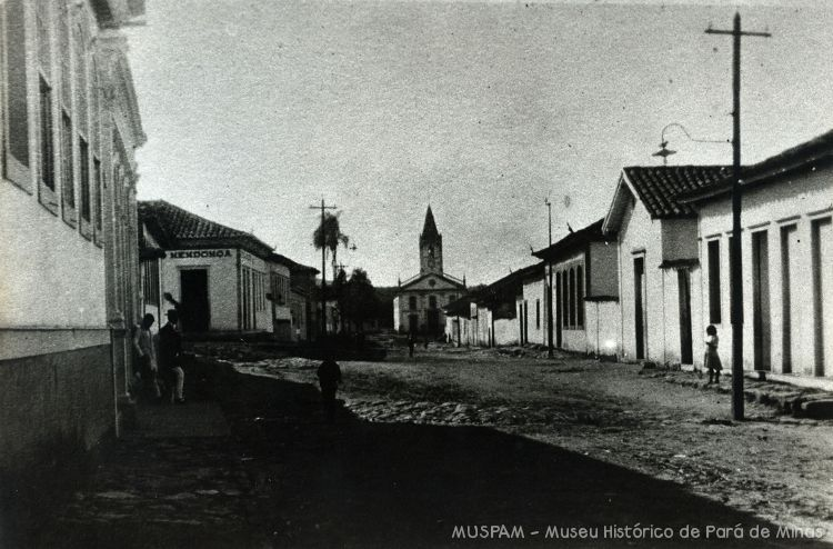 Main street of Pará de Minas, Minas Gerais, Brazil, and the Nossa Senhora da Piedade church in the background in the 1900s.